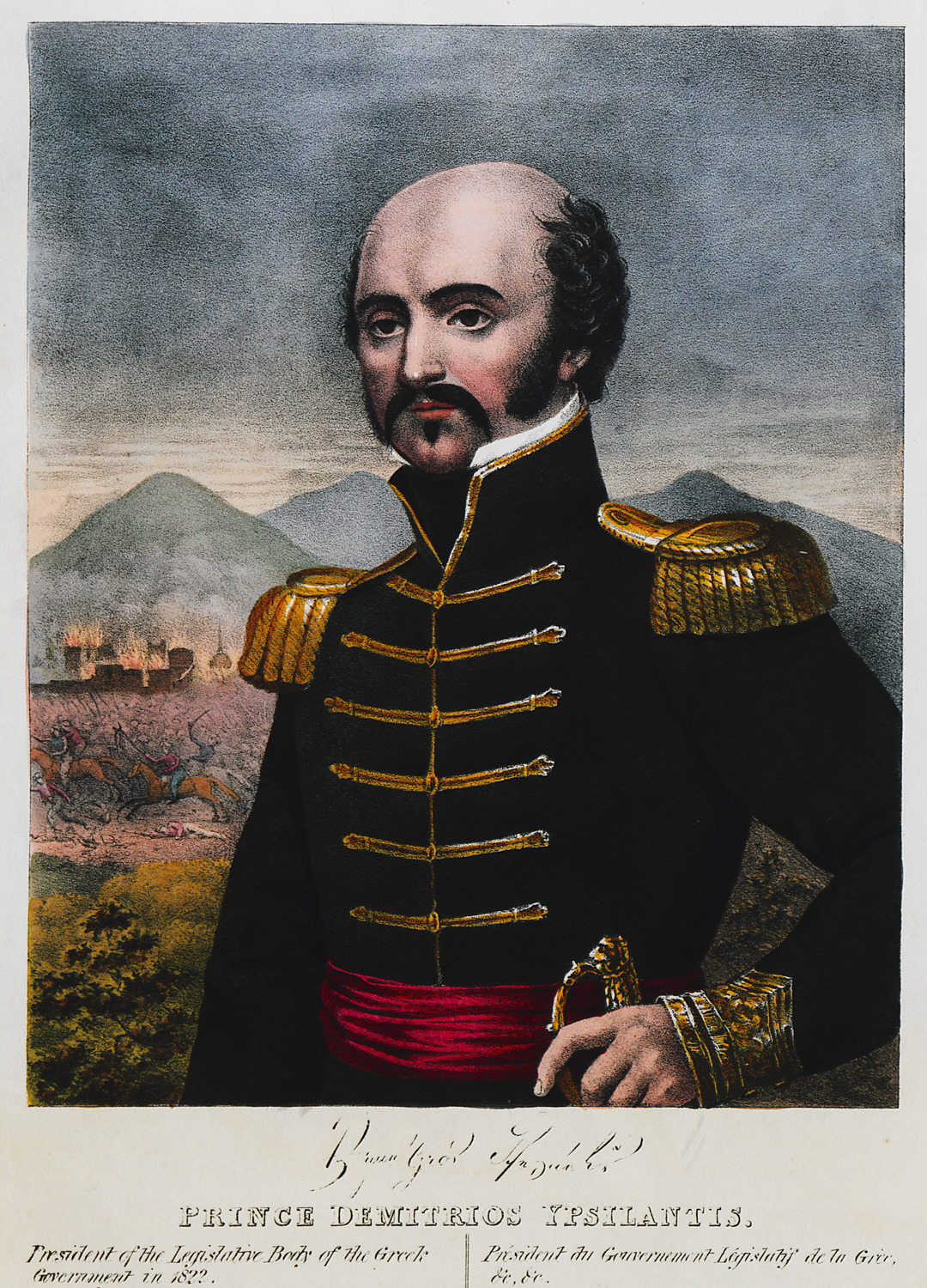 Adam de Friedel. The Greeks, Twenty-four Portraits of the principal Leaders and Personages who have made themselves most conspicuous in the Greek Revolution, from the Commencement of the Struggle, London, Adam de Friedel, 1830.